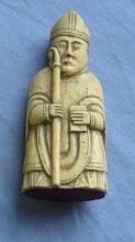 Photograph of resin reproductions of the Lewis chessmen. The picture shows the Bishop. Photo taken by Finlay McWalter.